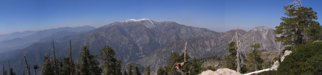 Panorama of the San Gabriel Mountains, California. From around Ontario Peak, looking northwest to Mt. Baldy.